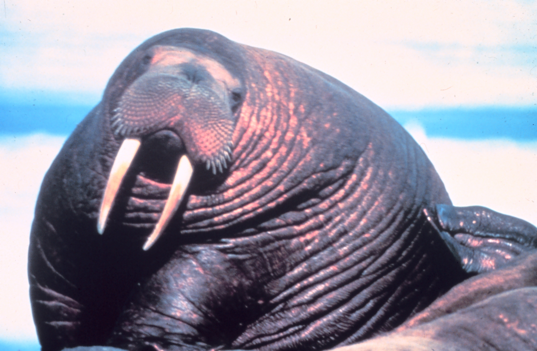 Large fat walrus (Odobenus rosmarus divergens) showing extent of blubber deposits. Bering Sea, Alaska.